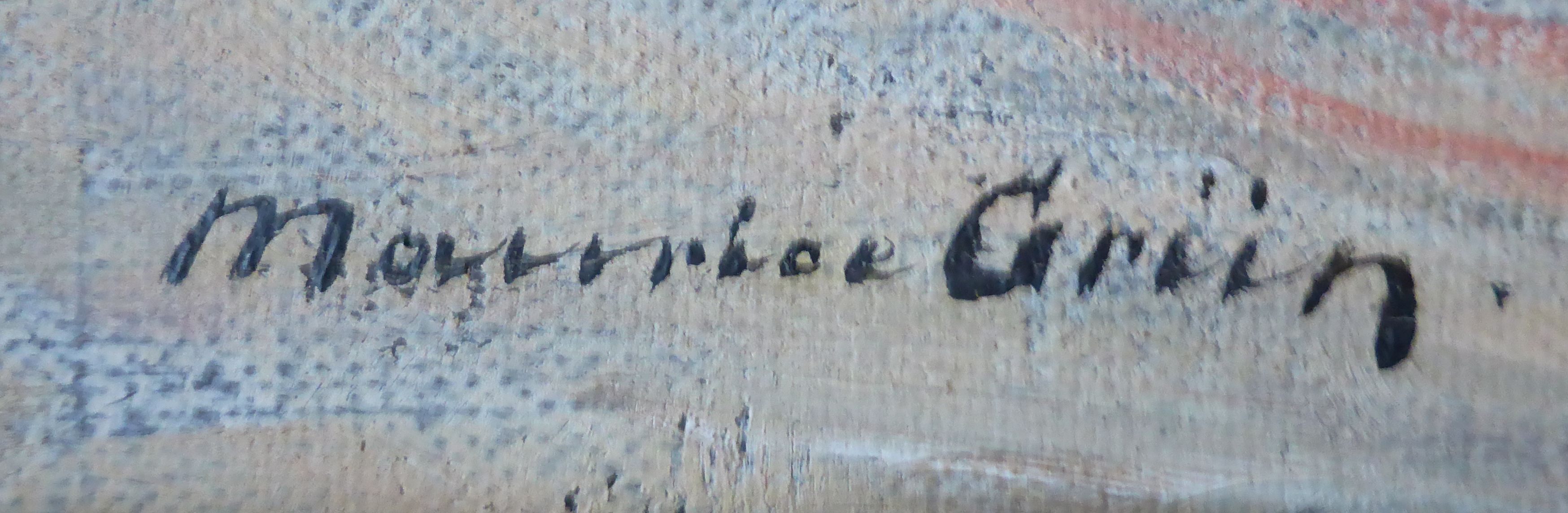 Photograph of a signature of a painting by Maurice Grün 1870-1947